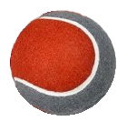 Ball used by Gregory House